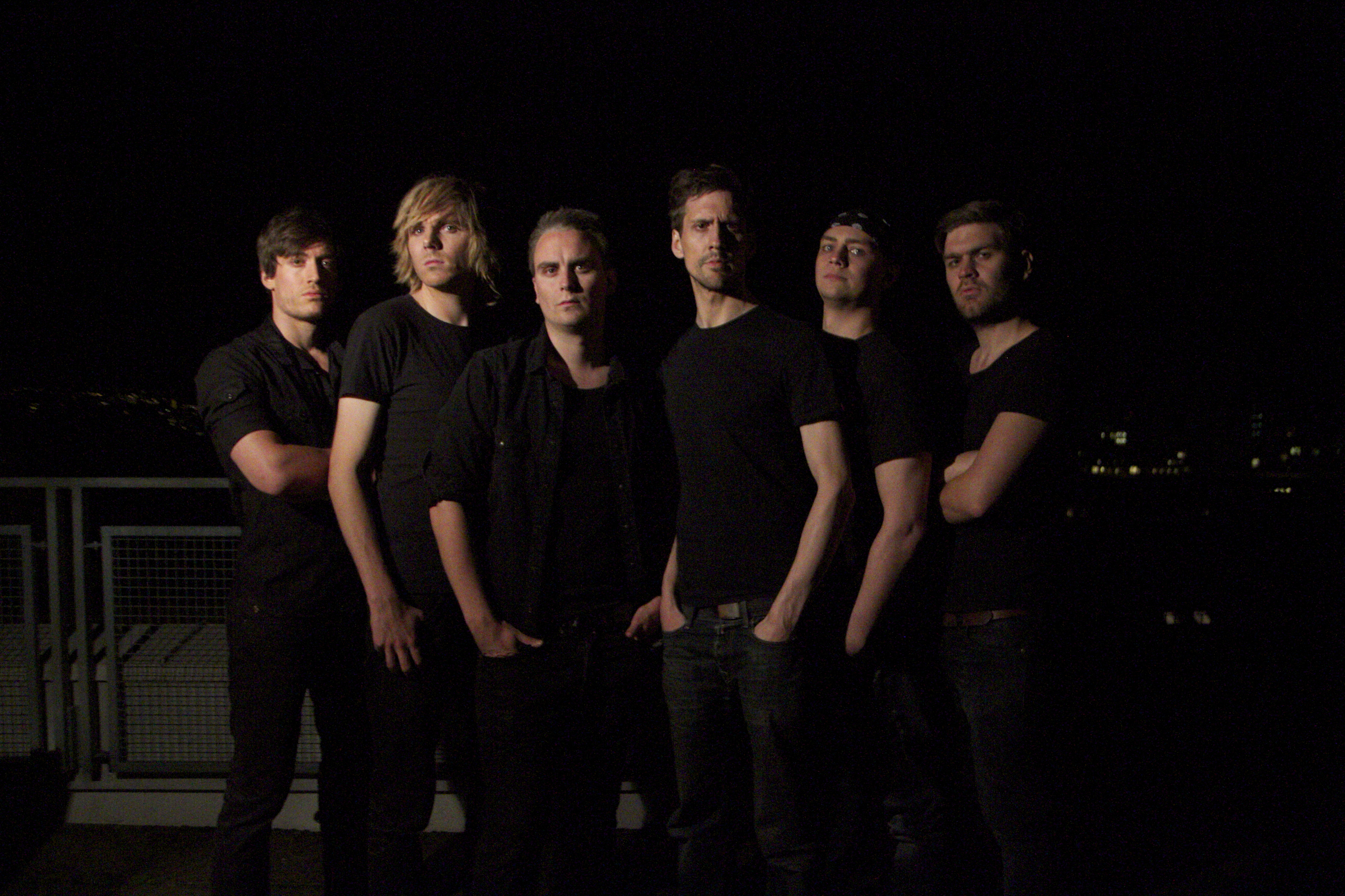 Band photo of the folkrock band Glittertind.